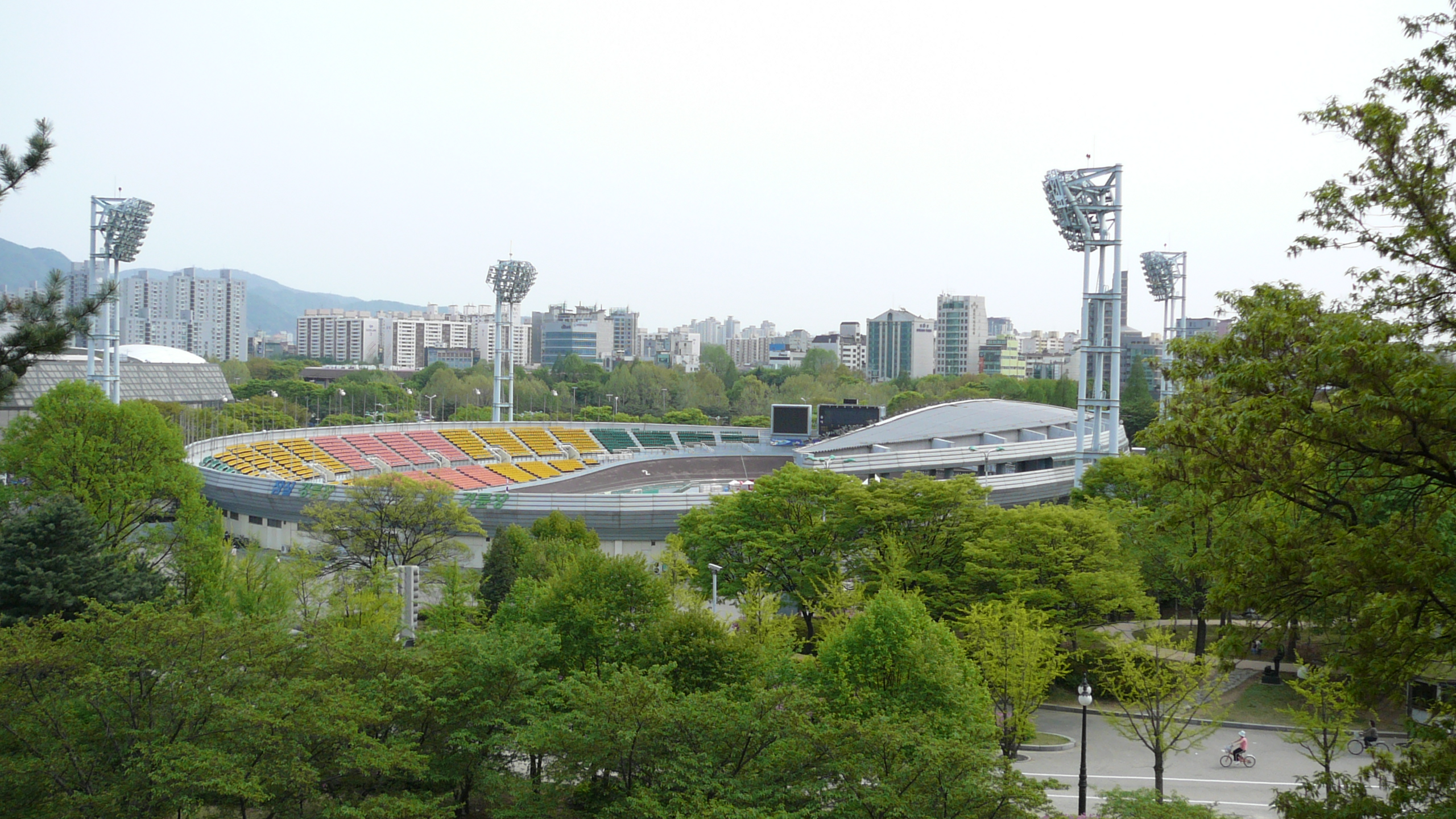 Olympic Velodrome in the Seoul Olympic Park.